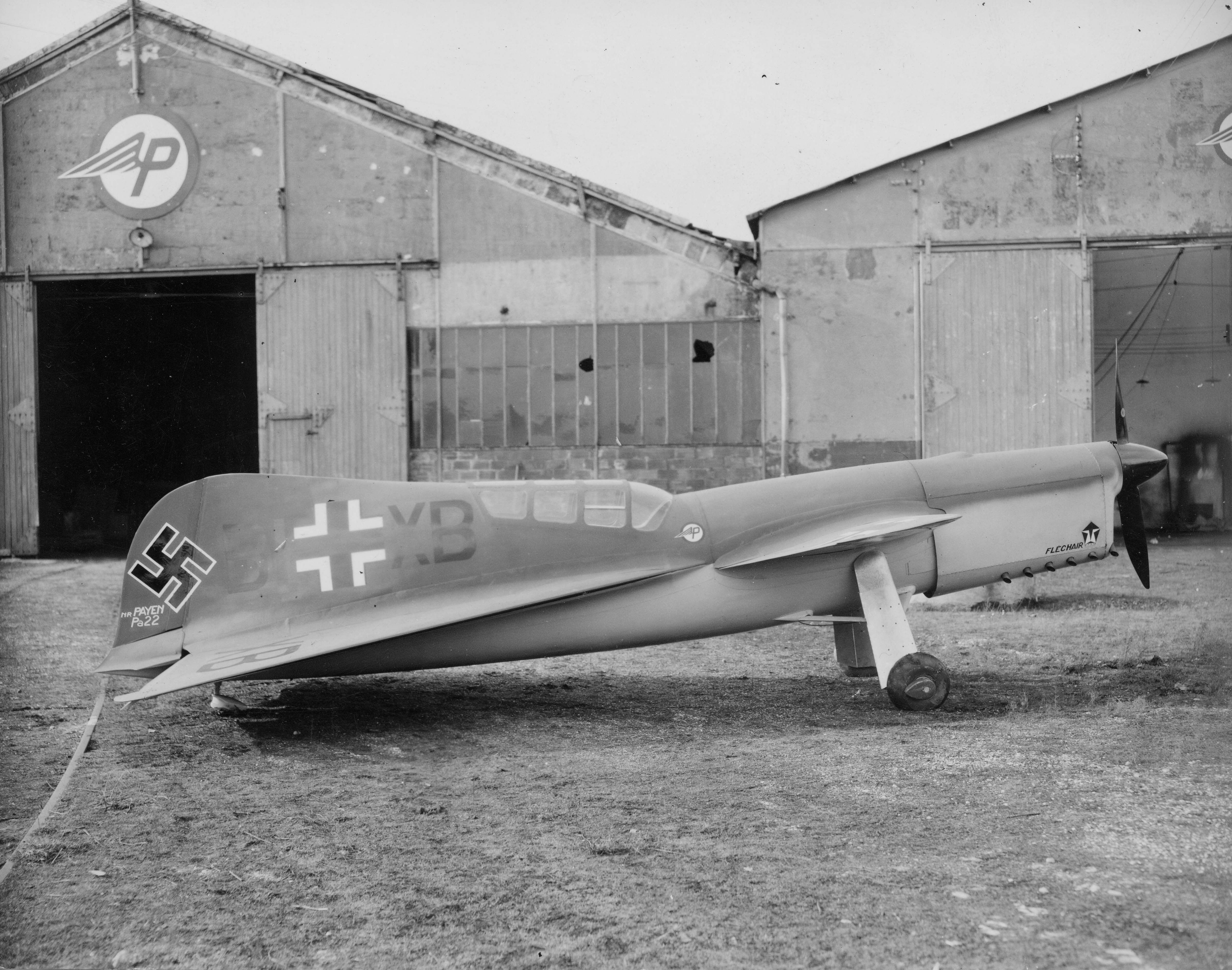 photo ofPayen PA-22 aircraft WW2 samf4u.png